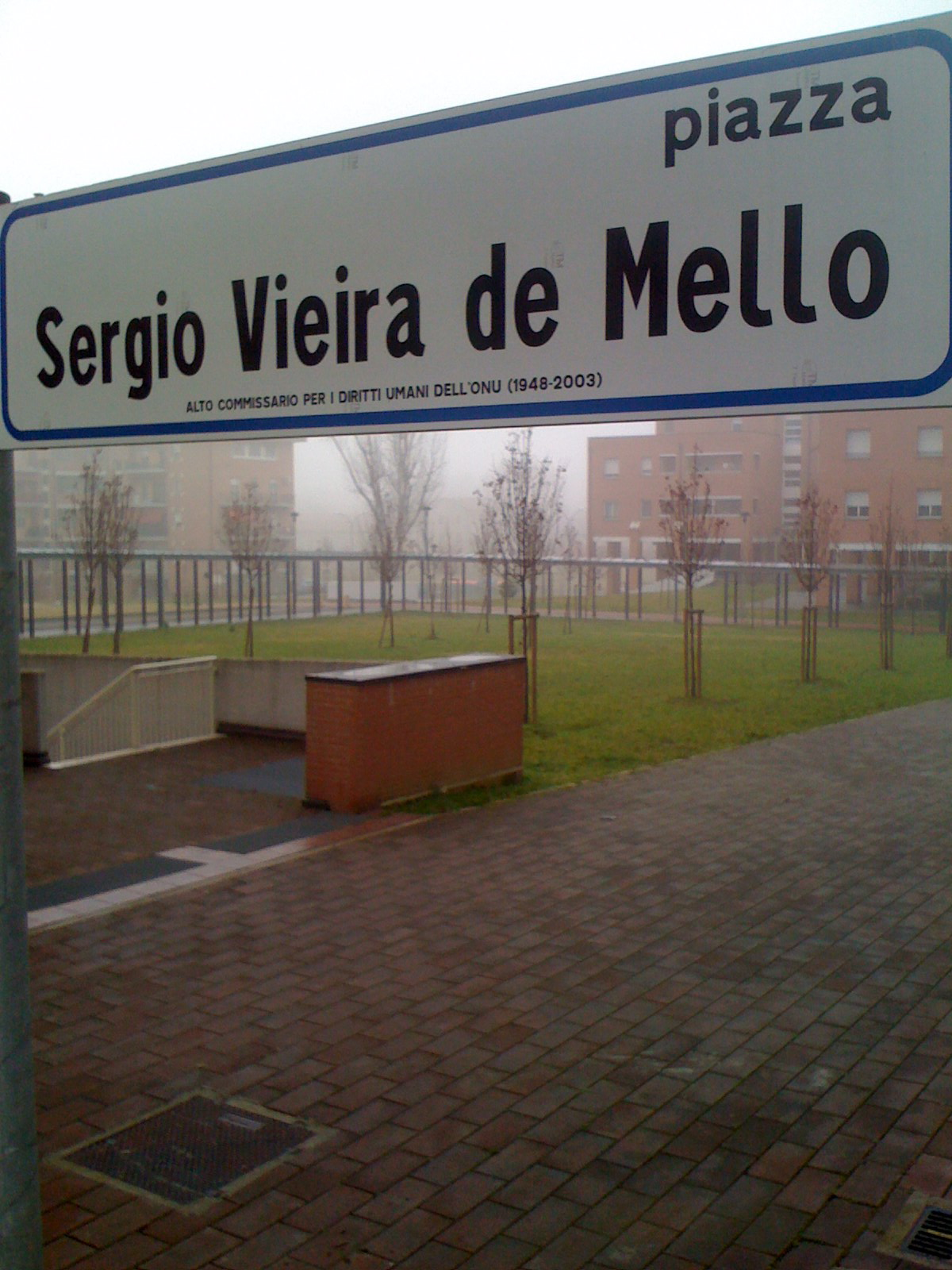 Piazza Sergio Vieira de Mello, Bologna, Italy